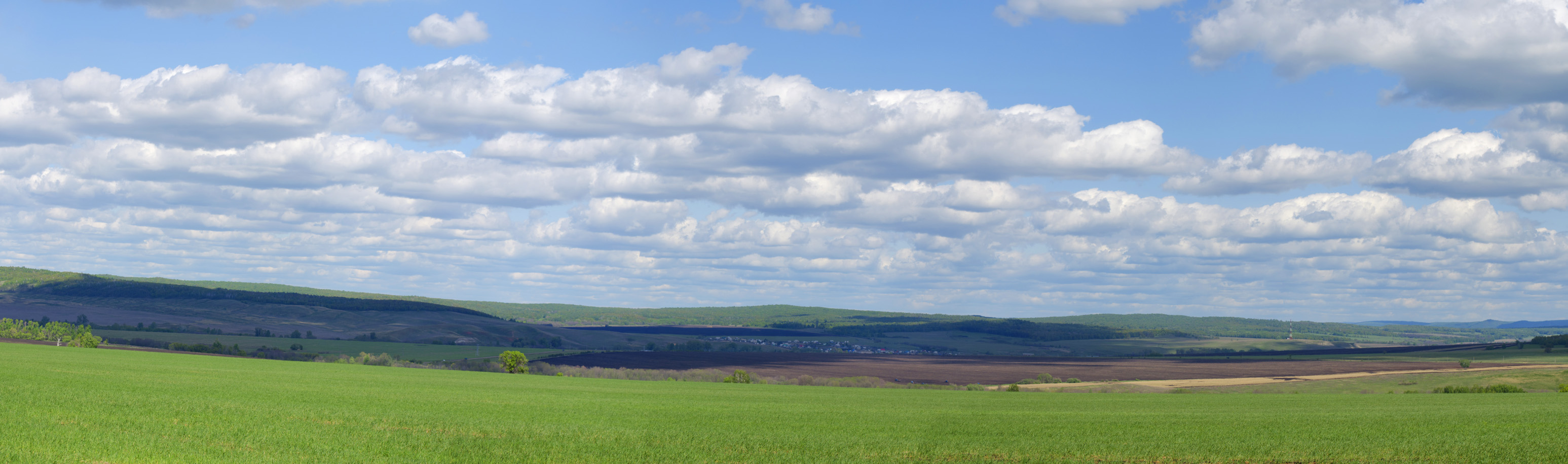 Panorama village Baiguzino, Ishimbai rayon